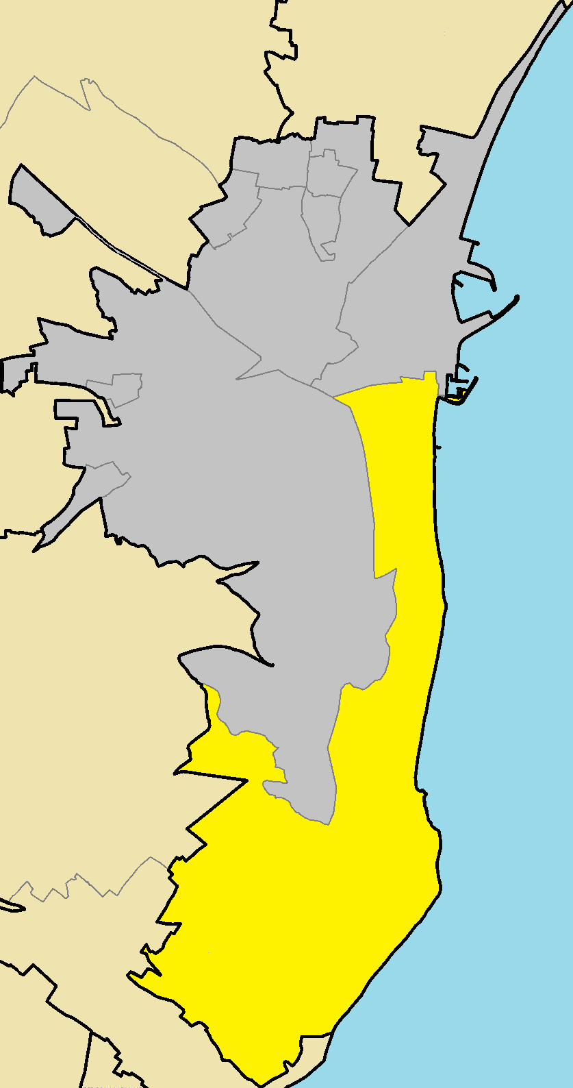 Skala in Larnaca Municipality.